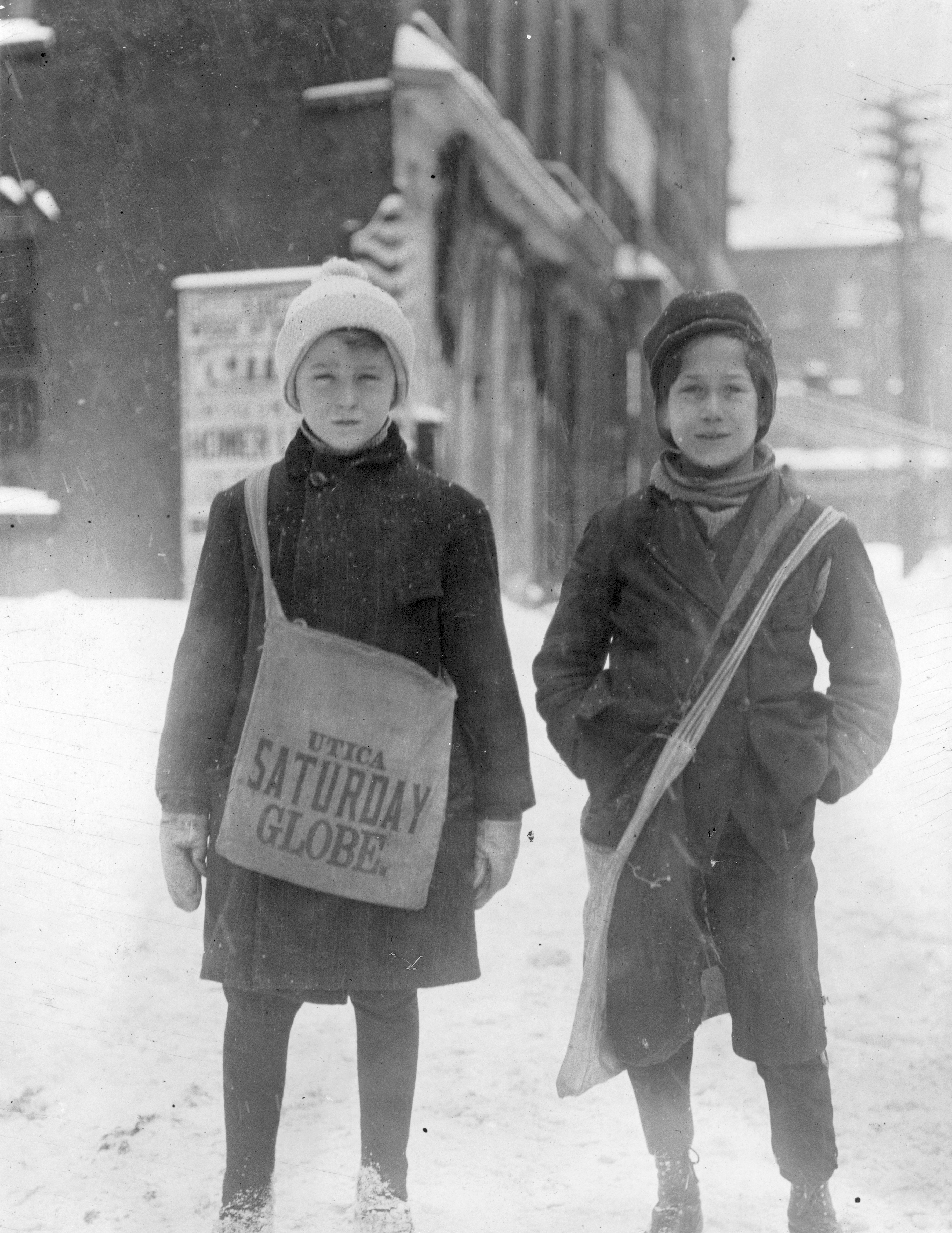 Newsboys. Location: Utica, New York (State)